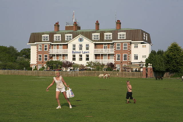 Balmer Lawn Hotel, Brockenhurst. I guess this is the biggest hotel in Brockenhurst. There is a cricket field in front of it (off screen left) and then the A337. The mother and child realised they were going to be in the picture and acted up.